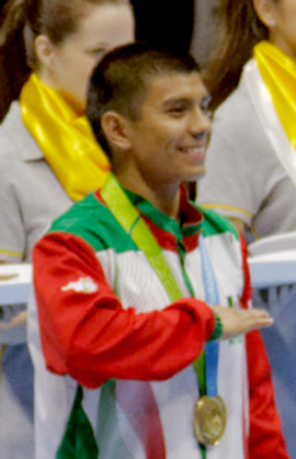 Pan Am Boxing Men's Light Fly Weight 46-49Kg Medal Round. Joselito Velázquez